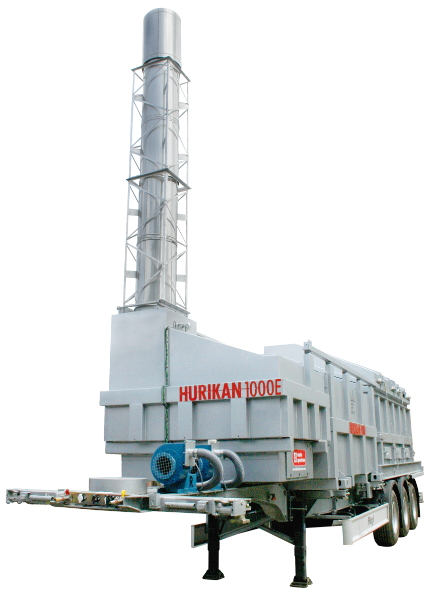 Waste Spectrum HURIKAN 1000E Mobile Incineration Unit